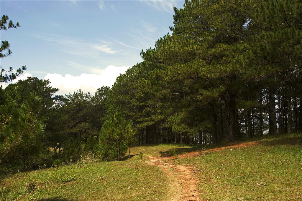 Pinus kesiya forest, Mt. Ugo, Cordillera Central, Luzon, Philippines; approx. 16°19'N 120°48'E.